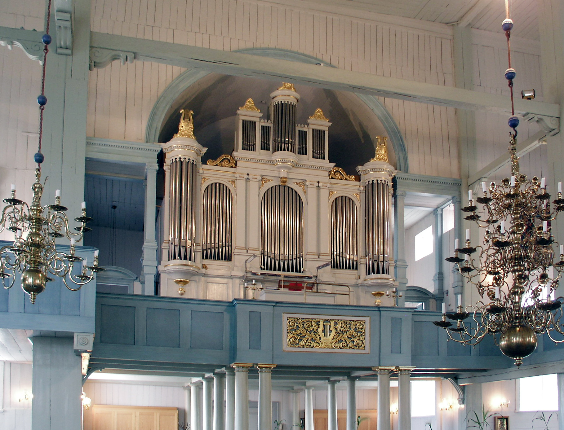 Amiralitetskyrkan, Karlskrona. Church organ. The picture was taken the 6th of August 2005 by Håkan Svensson (Xauxa)